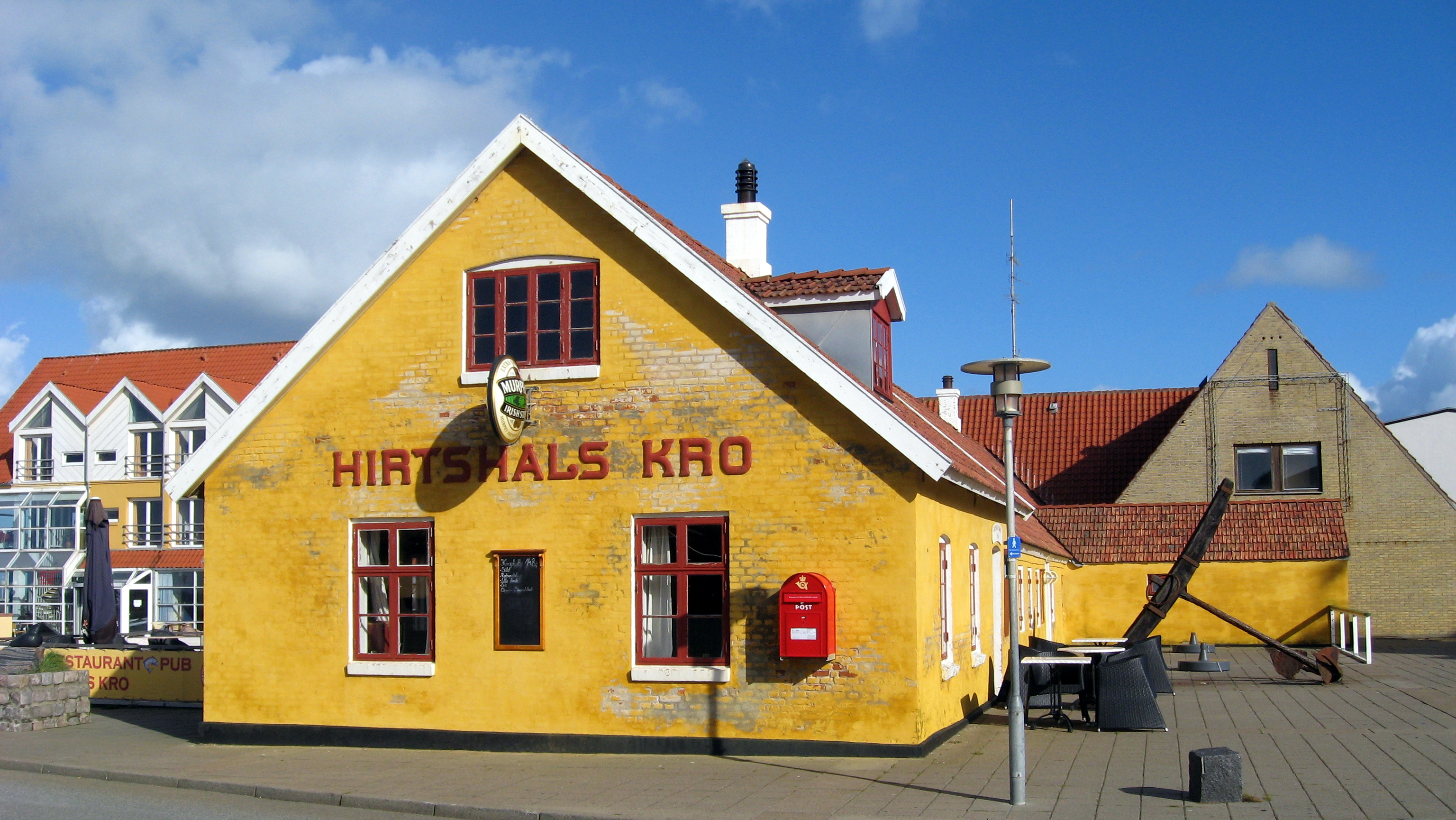 The restaurant / pub Hirtshals Kro in Hirtshals, Denmark